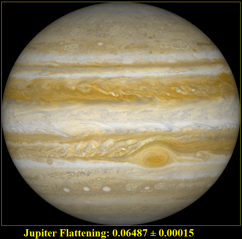 Simulated view of Jupiter with flattening ratio